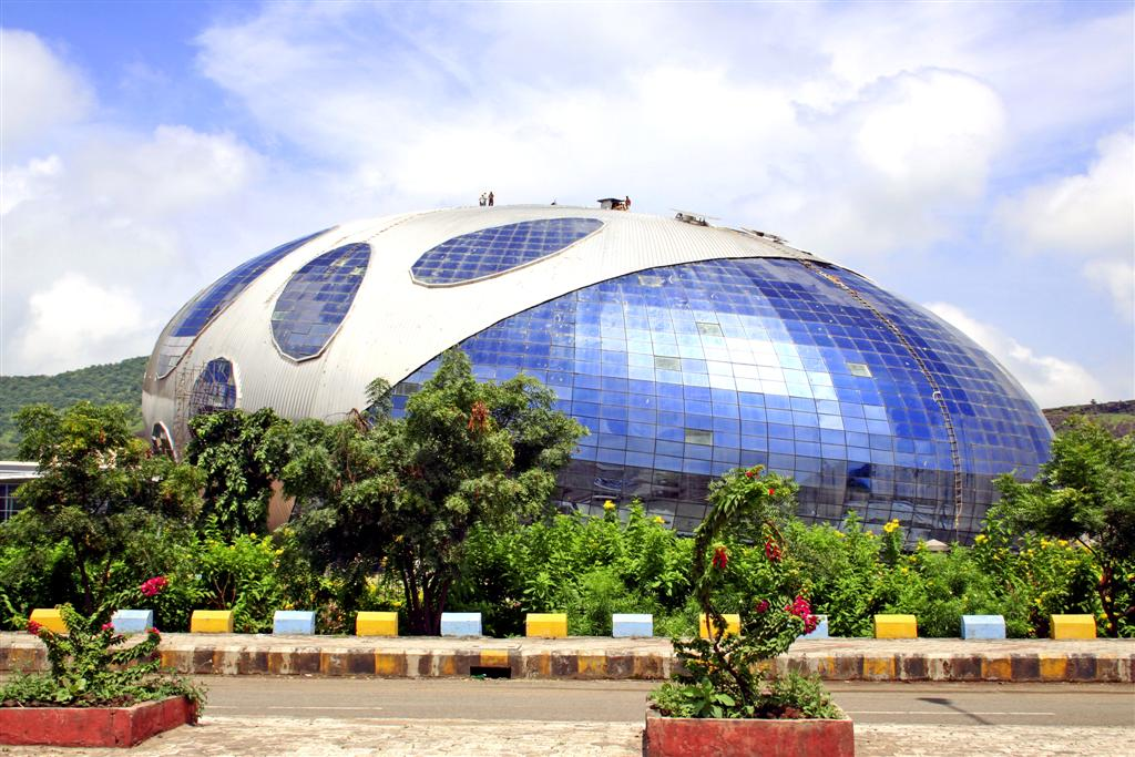 by Neville_S Uploaded to wiki by user:nikkul